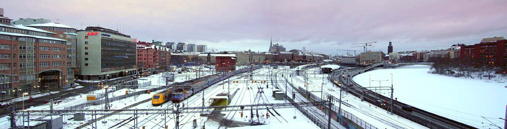 Stockholm Central Station on a February evening.